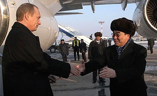 Russian President Vladimir Putin being greeted by Kyrgyz President Askar Akayev in Bishkek.